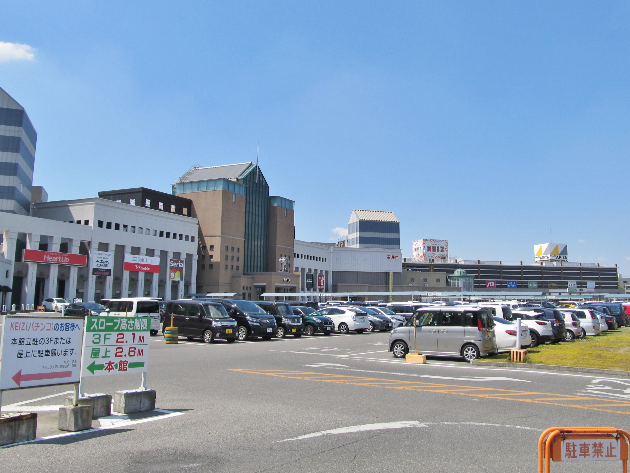 The "Galleria APiTA Chiryu" Shopping mall in Chiryu city, Aichi Prefecture, Japan.